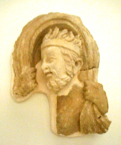 Wind god Boreas, Hadda, Afghanistan. Musee Guimet. Personal photograph 2005.